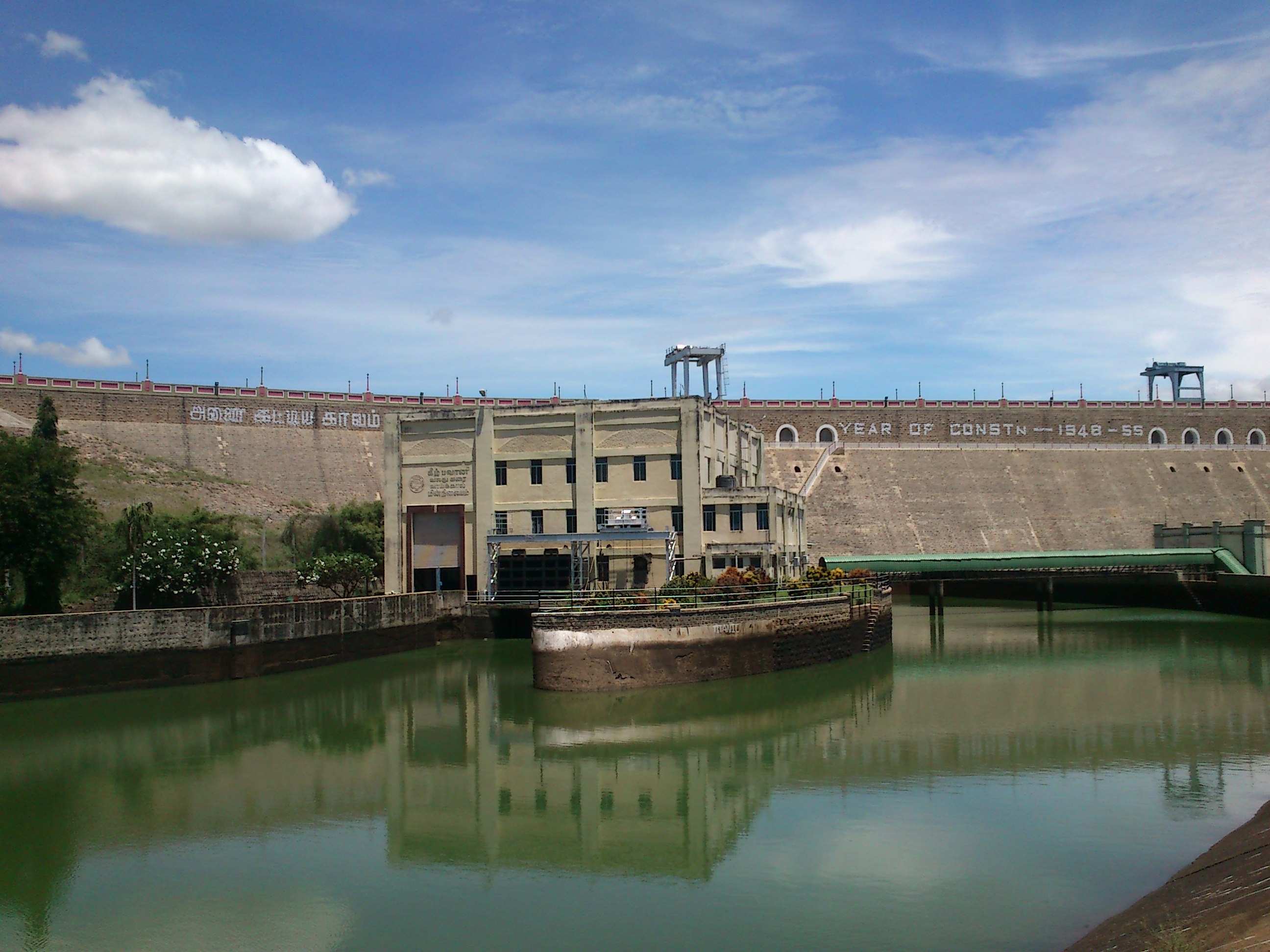 Bhavanisagar Dam